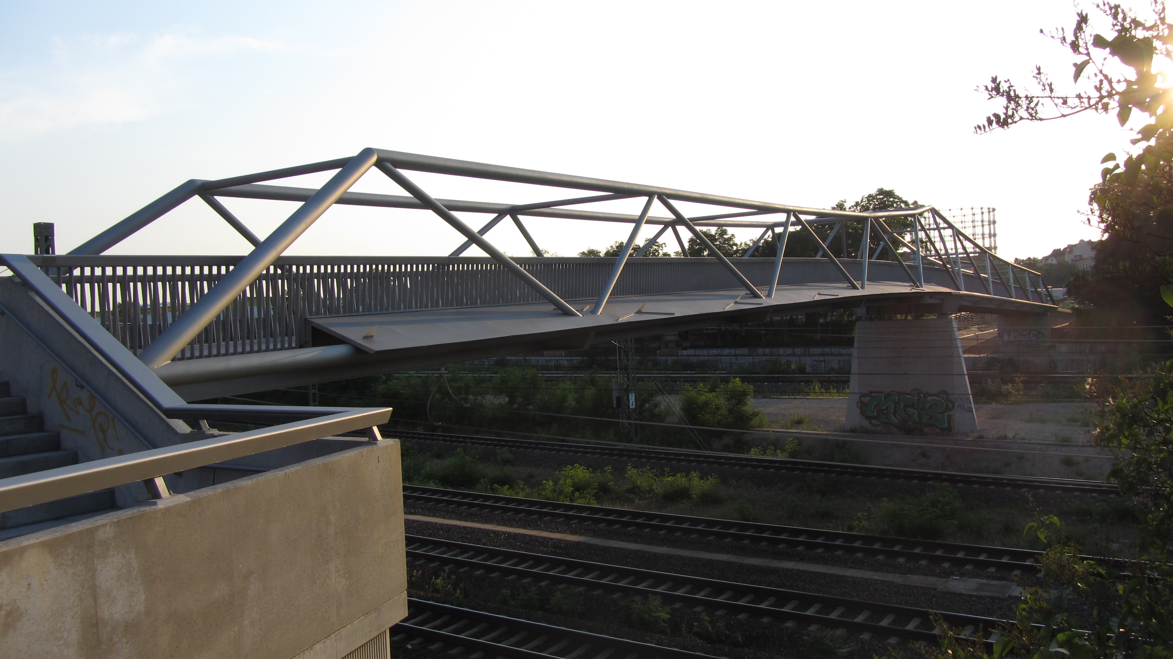 Alfred-Lion-Steg (Bridge), looking westward from Tempelhof to Gasometer/Rote Insel.